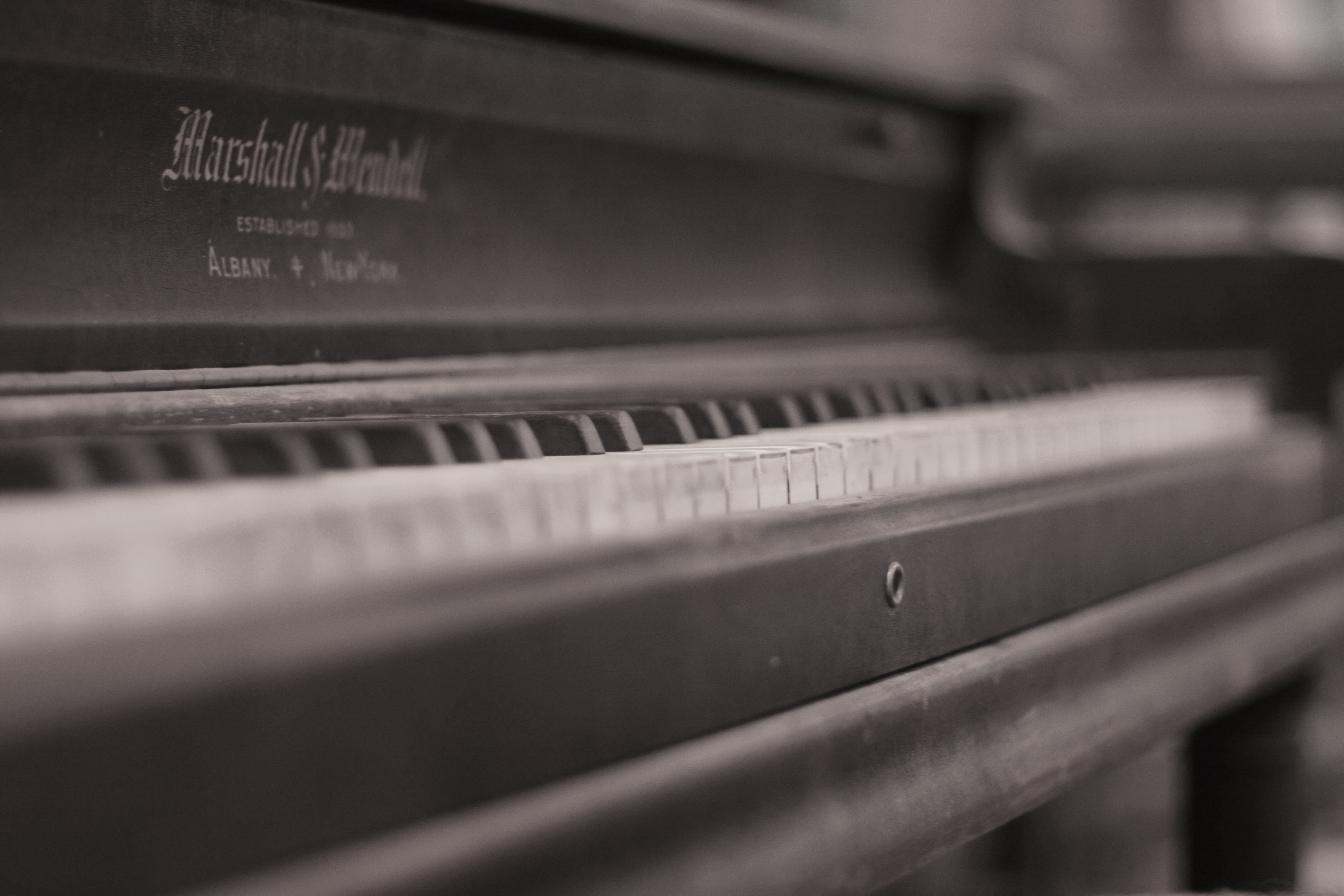 Marshall & Wendell ESTABLISHED 1836 Albany, New York